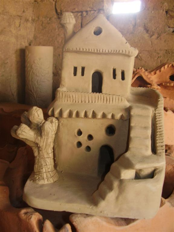 Terracotta Toy House Made by a clay artist in Gujrat Pakistan.